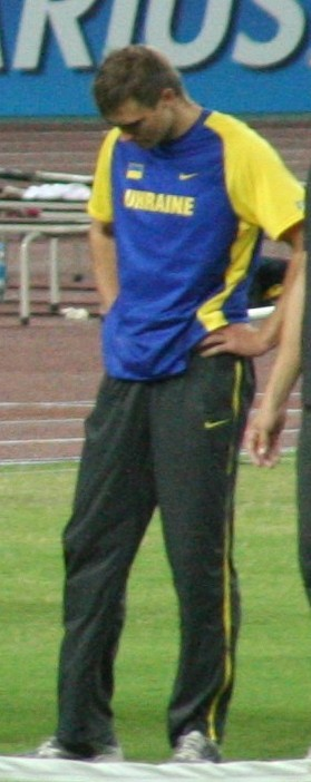 World Athletics Championships 2007 in Osaka - Maksym Mazuryk